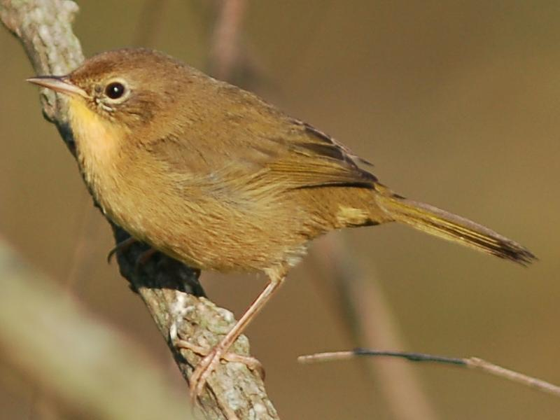 Common Yellowthroat (Geothlypis trichas), Female